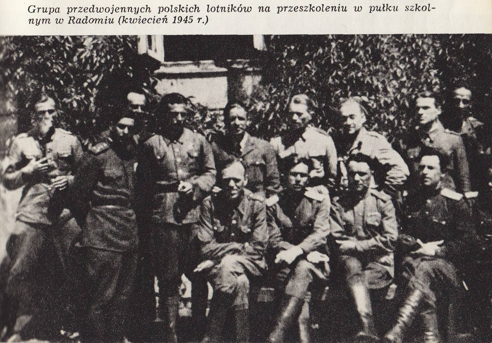 Pilots of 15 Zapasowy Pułk Lotniczy (Training Squadron) in Radom April 1945